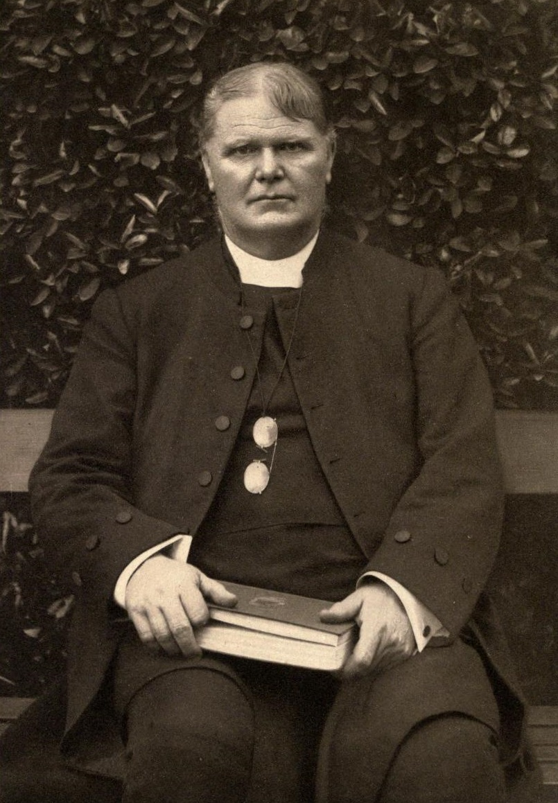 Portrait of J.E.C. Welldon.